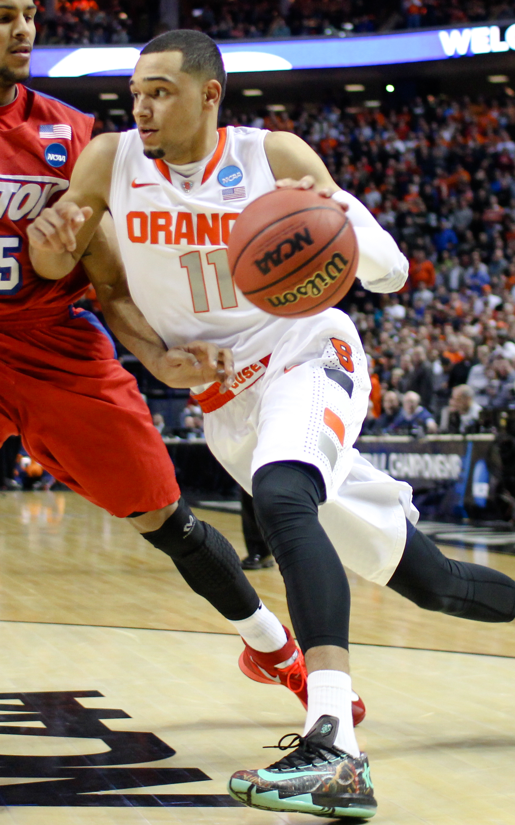 Dayton upsets Syracuse 55-53